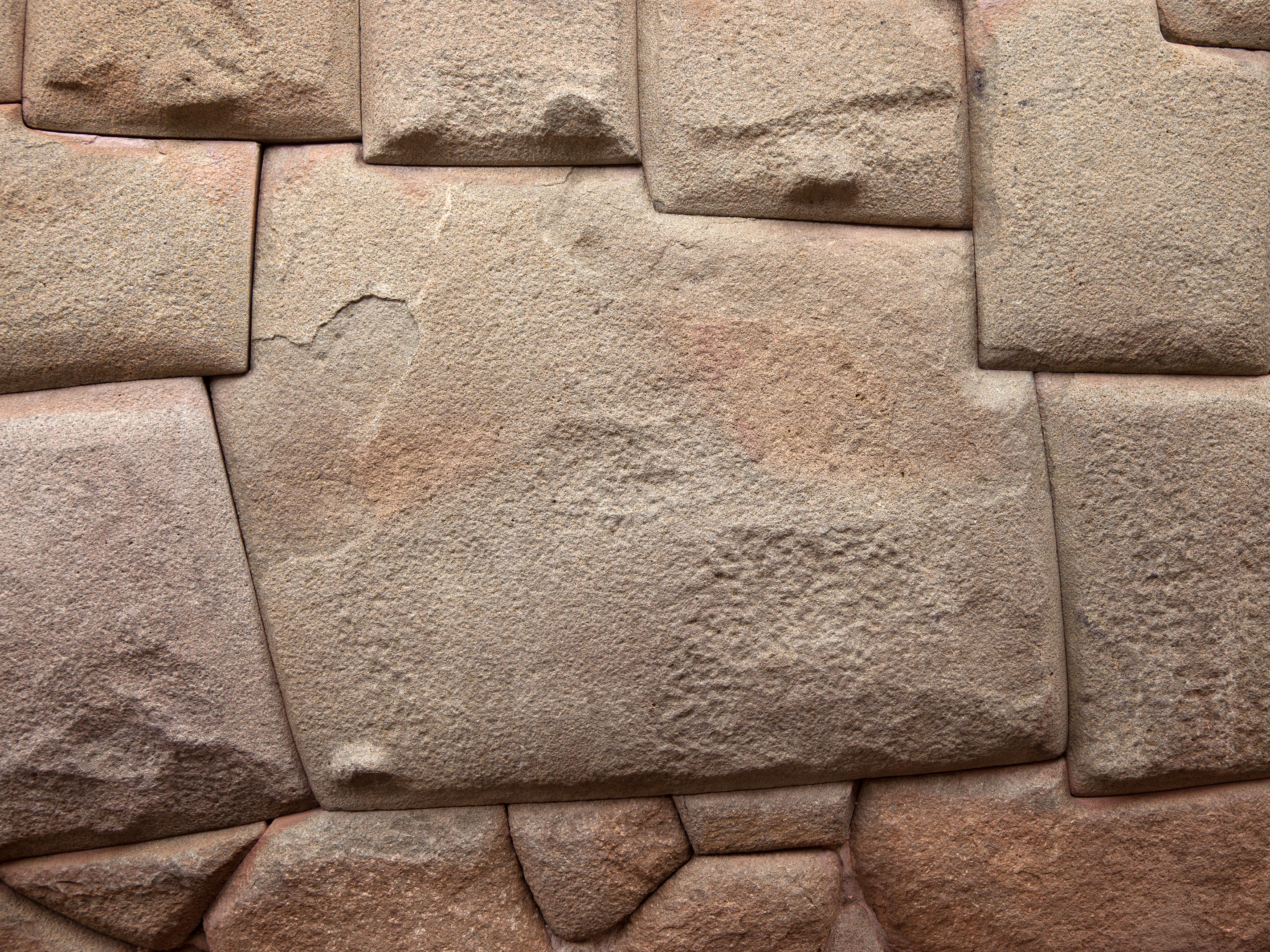 Cusco, street Hatun Rumiyoq ("the one with the big stone"), with its stone of 12 angles